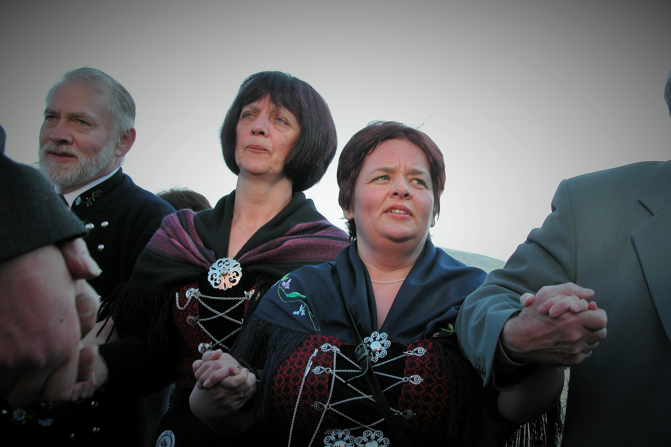 Faroese ring dance